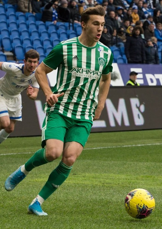 Konrad Michalak with FC Akhmat Grozny in a game against FC Dynamo Moscow.